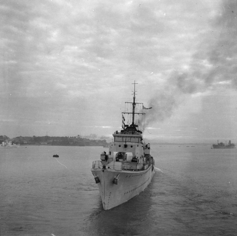 Photograph of British Hunt class destroyer HMS Atherstone.